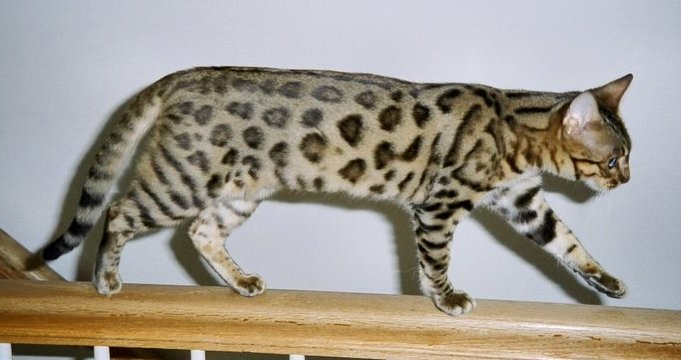 Pet Bengal cat, Stella, showing spotting patterns and rosetting of spots typical of the Bengal breed.